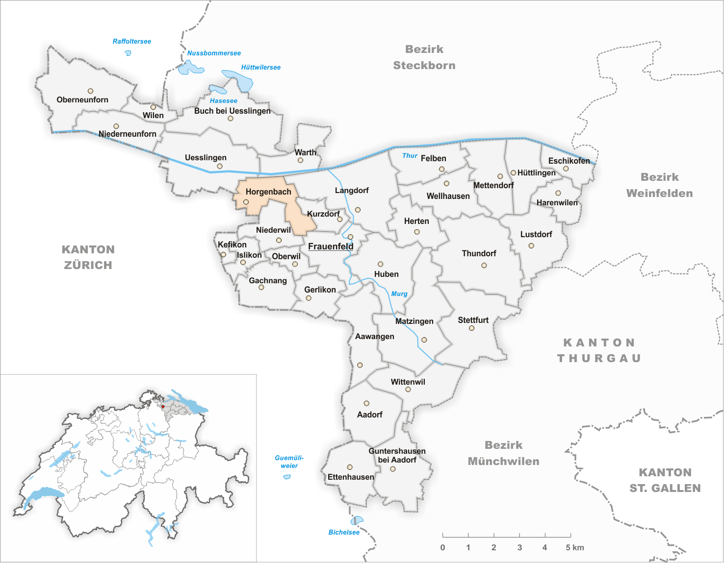 Municipality Horgenbach